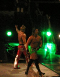 Frankie Kararian and Shannon Moore.